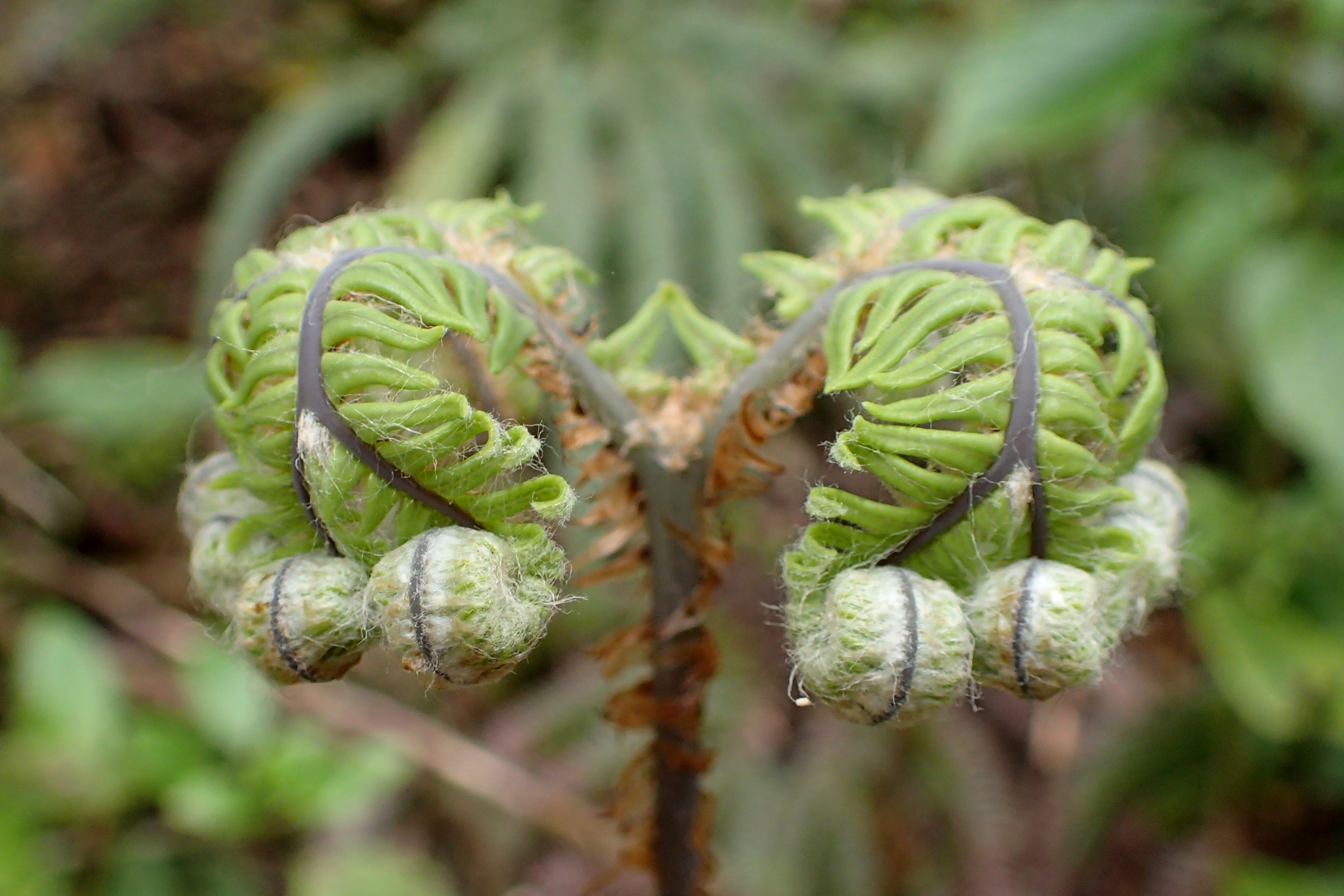 Sticherus cunninghamii in Whakapapa, Waikato (New Zealand)